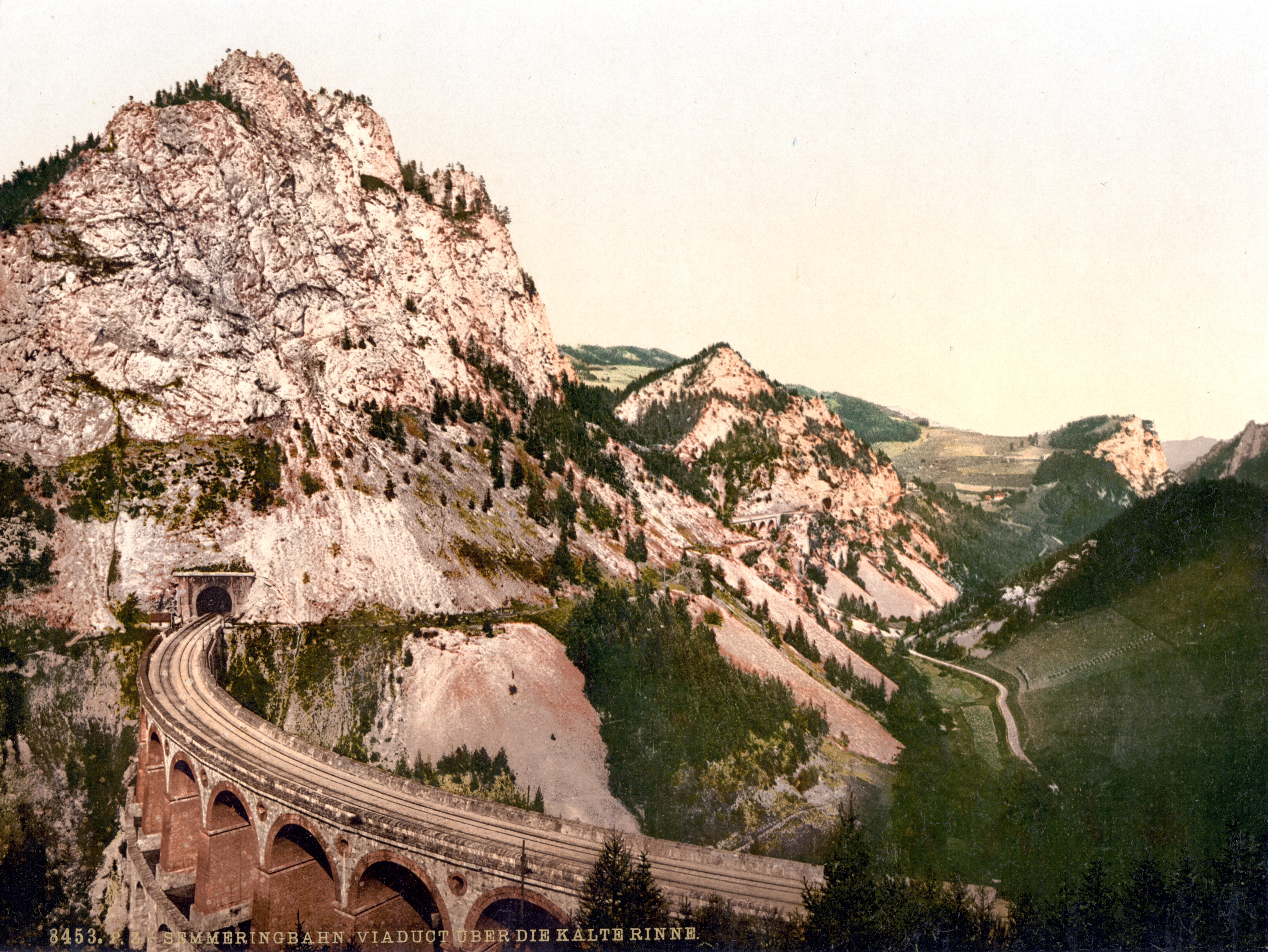 Semmering Railway, viaduct over the Kalte Rinne, Styria, Austro-Hungary, between ca. 1890 and ca. 1900